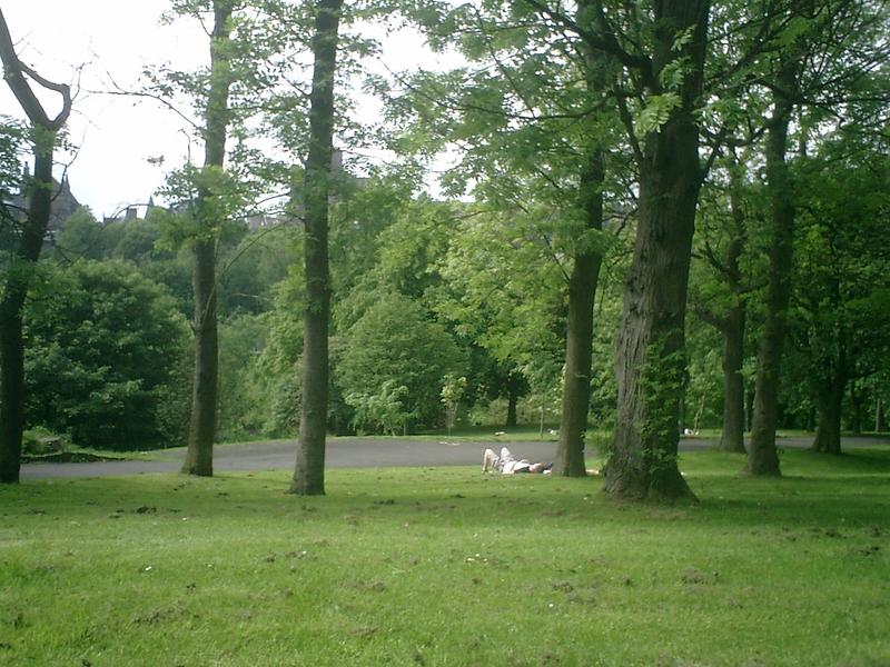 Kelvingrove Park, photo taken 1st June 2003 by User:Edward.